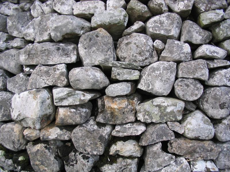 A detail of a dry stone wall in the Yorkshire dales, taken by me on 21st September 2003.